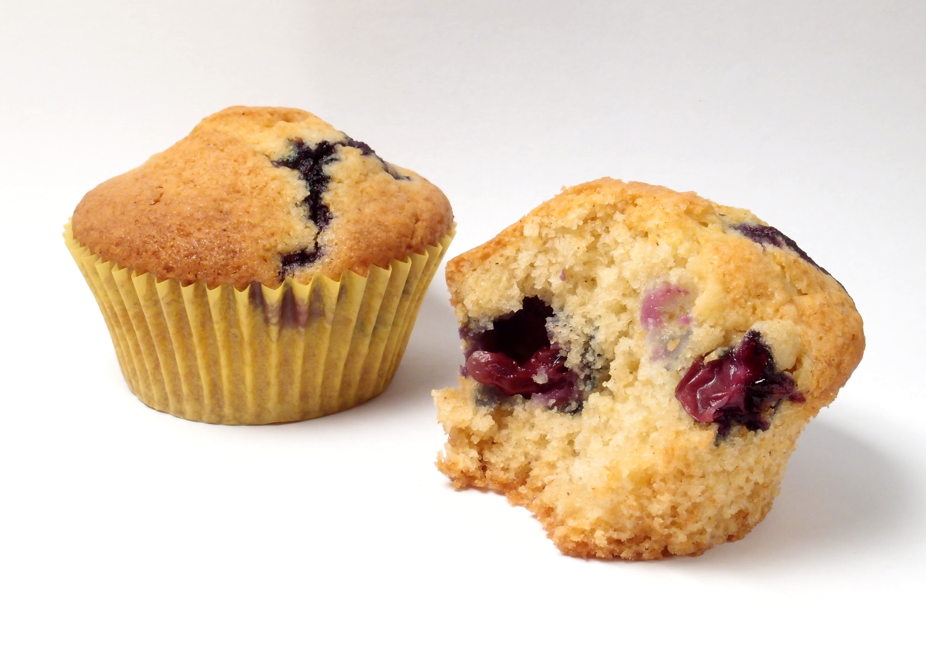 Two blueberry muffins, one whole and still in its paper wrapper, one unwrapped and torn open.